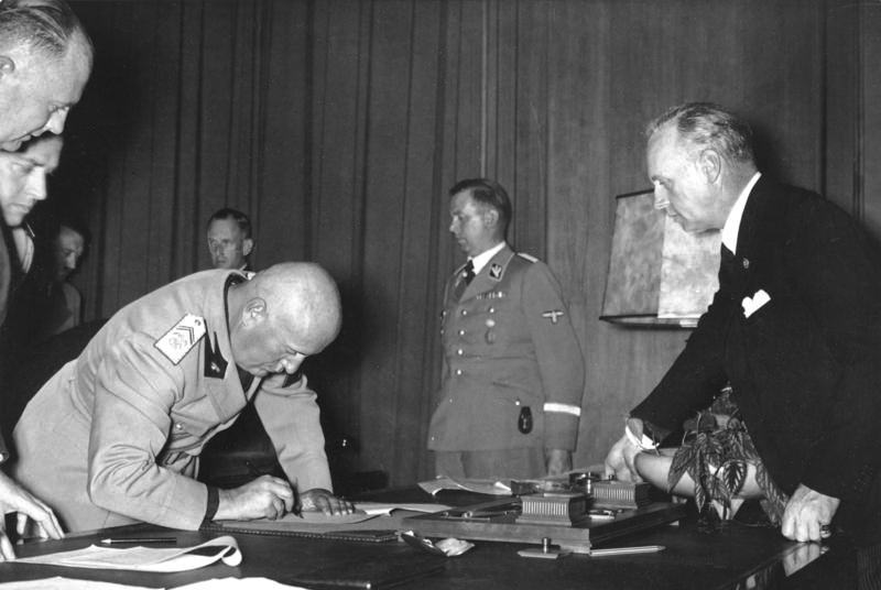 (rough translation) Subscription for Peace. In the late evening hours of Thursday 29 Sept 1938 was subscribed the Accord for Justice and Peace among the four powers in the Fuehrerbau in Munich. Il Duce signs the document, at his (?) right is Foreign Minister von Ribbentrop. 12895-38 Abgebildete Personen: Mussolini, Benito: Ministerpräsident, Regierungschef, Chef des Faschistischen Großrates, Italien Ribbentrop, Joachim von: Außenminister, NSDAP, Deutschland Schaub, Julius: SS-Gruppenführer, persönlicher Adjutant Adolf Hitlers, Deutschland